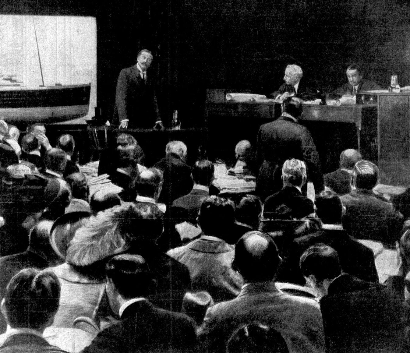 Sir Cosmo Duff Gordon at the British Wreck Commissioner's inquiry into the sinking of the RMS Titanic